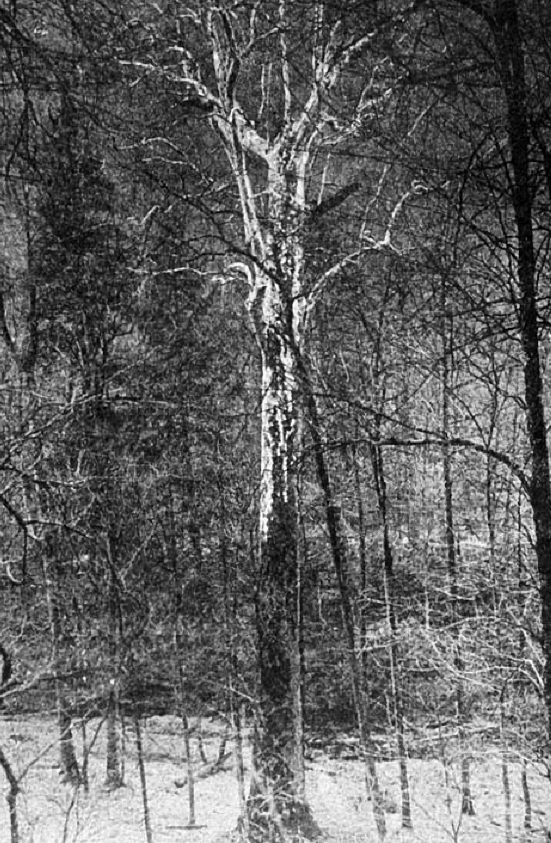 A photograph (c. 1920) of the Webster Sycamore (alternatively known as the Webster Springs Sycamore and the Big Sycamore Tree), which was an American sycamore (Platanus occidentalis) in the U.S. state of West Virginia. Long recognized for its size, the Webster Sycamore was the largest living American sycamore tree in West Virginia until its Felling in 2010. The tree stood approximately 4.5 miles (7.2 km) east of Webster Springs in Webster County, in a moist flood plain along the banks of the Back Fork Elk River, a tributary stream of the Elk River. The image is from the following source: Mosely, Edwin Lincoln (1920) Trees, Stars and Birds: A Book of Outdoor Science, Yonkers, New York: World Book Company